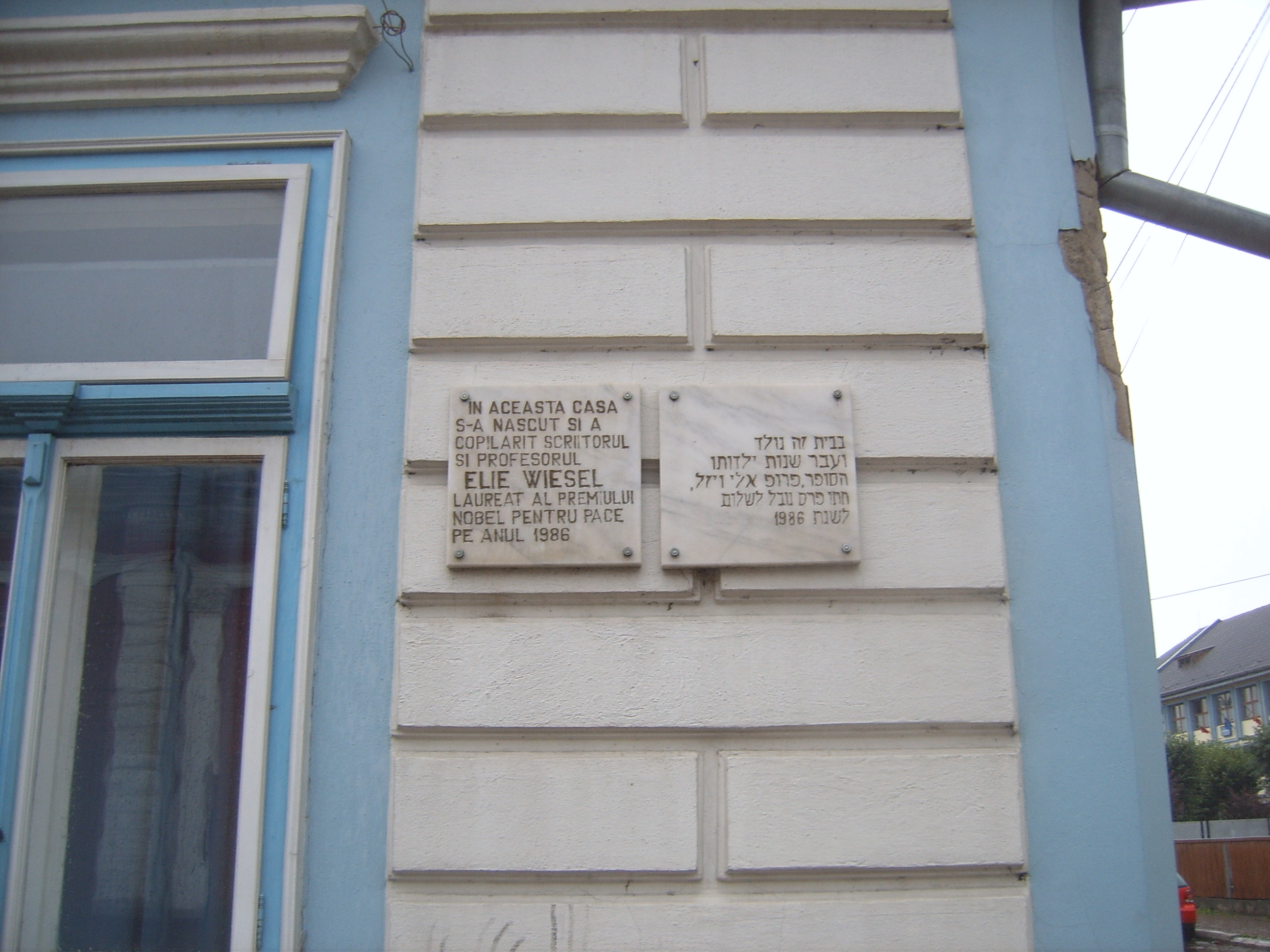 Childhood home of Elie Wiesel, in Sighet, Romania The commemorative plaque says: "In this house was born and spent his childhood the writer and professor ELIE WIESEL, Nobel Prize for Peace Laureate in 1986"